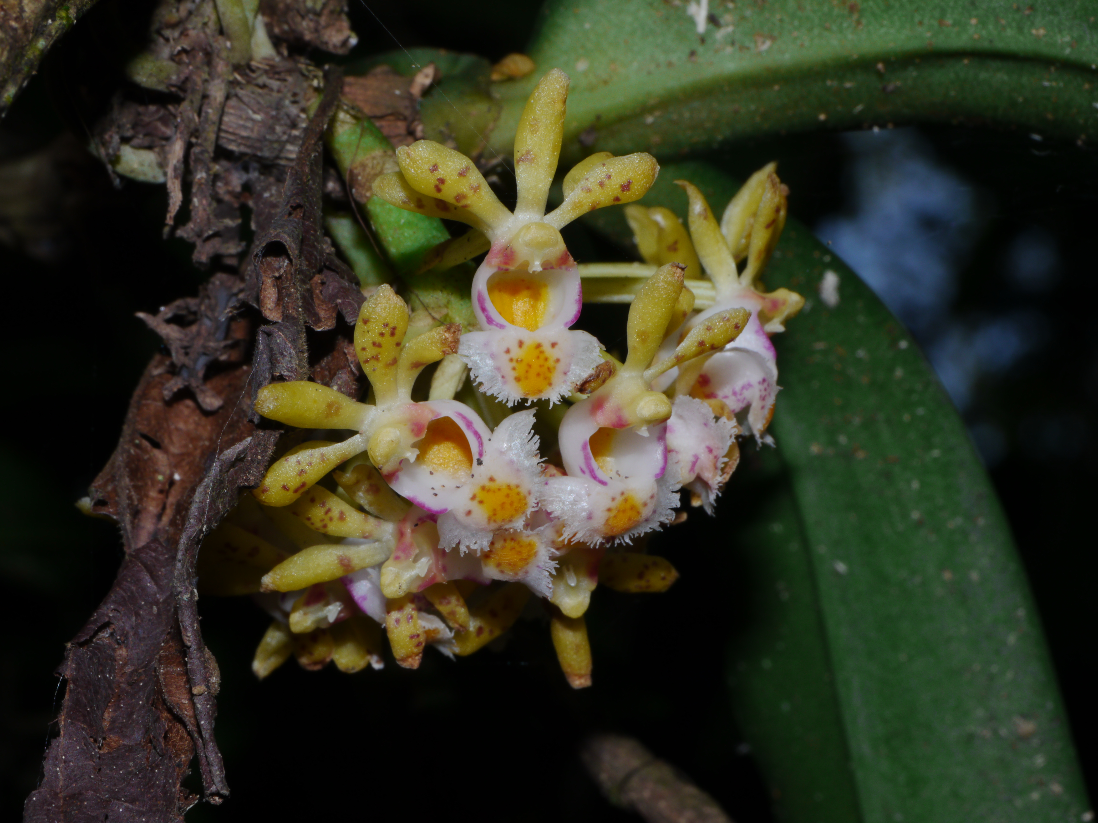 Gastrochilus obliquus photographed in Pakke